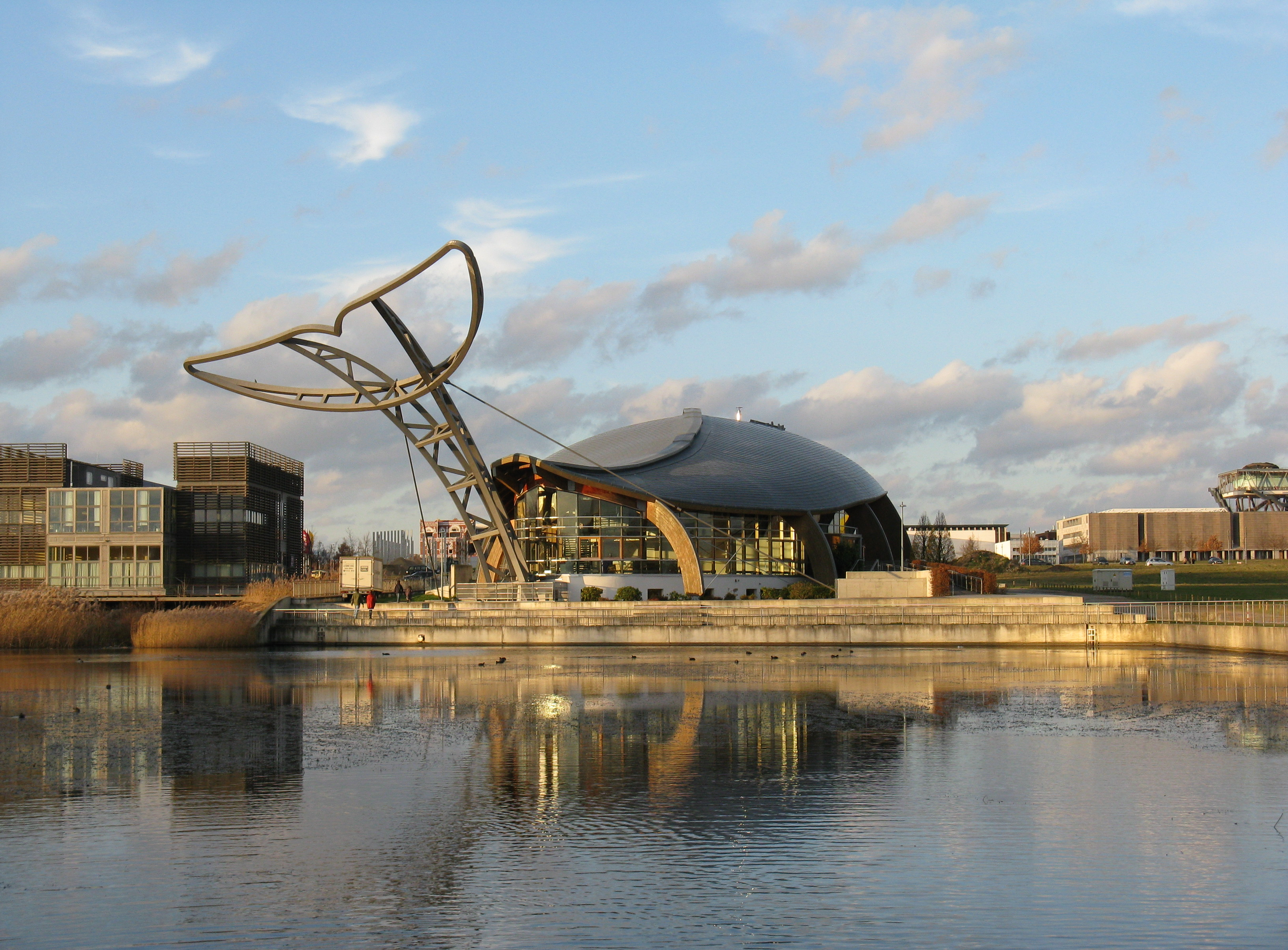 Pavilion of Hope ("Expo Whale") in Expo-Park (Hannover, Germany), emblem of Expo 2000